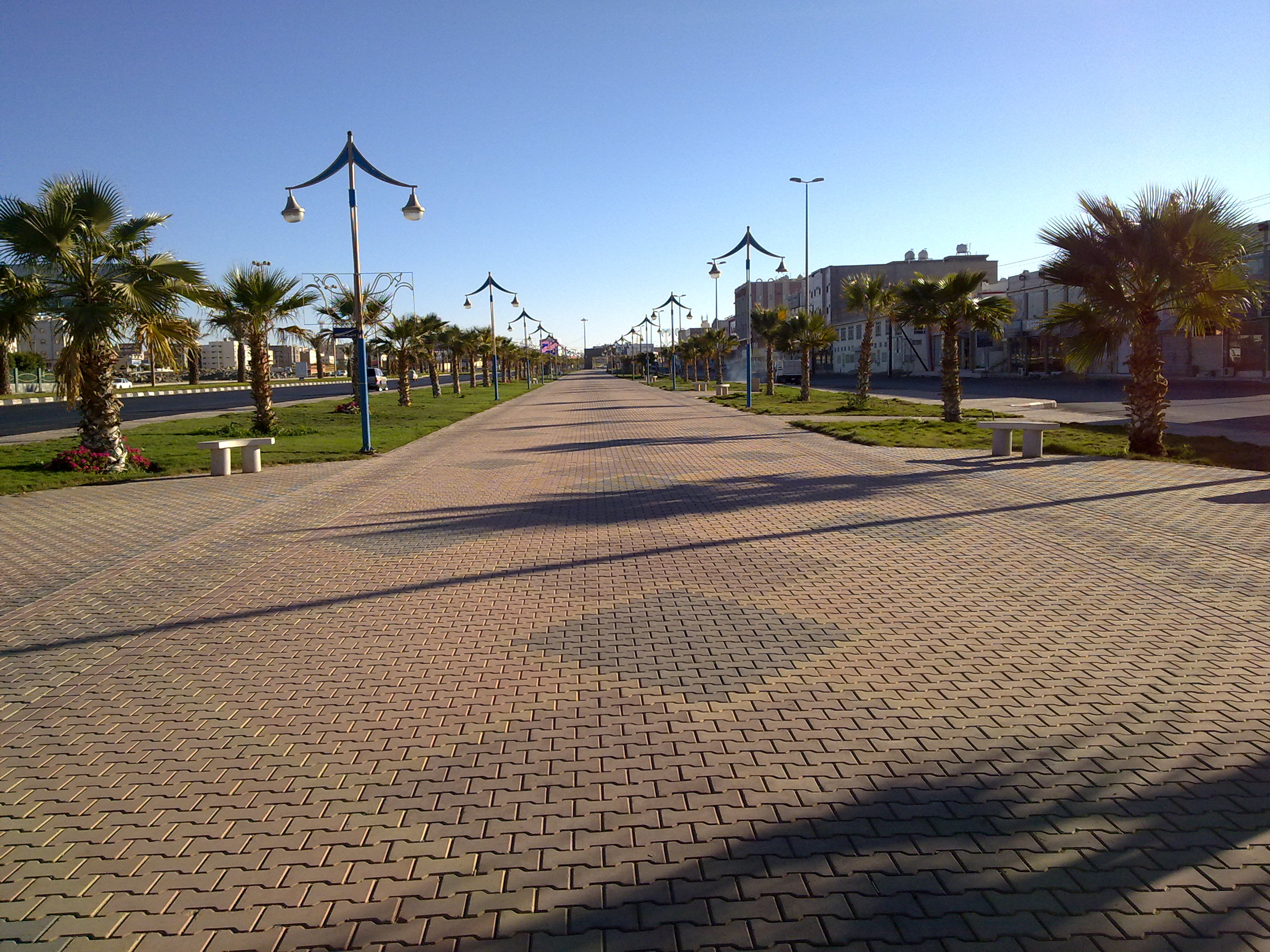 The field of walking and jogging , In the city of Khamis Mushayt